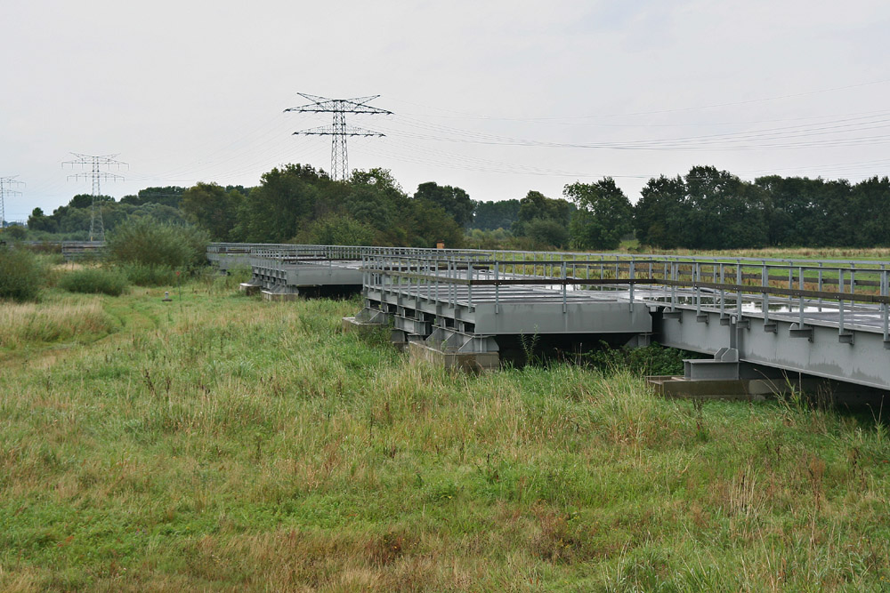 An elevated (on stilts) construction road of the Saale-Elster Viaduct, in a natural reserve; Halle.